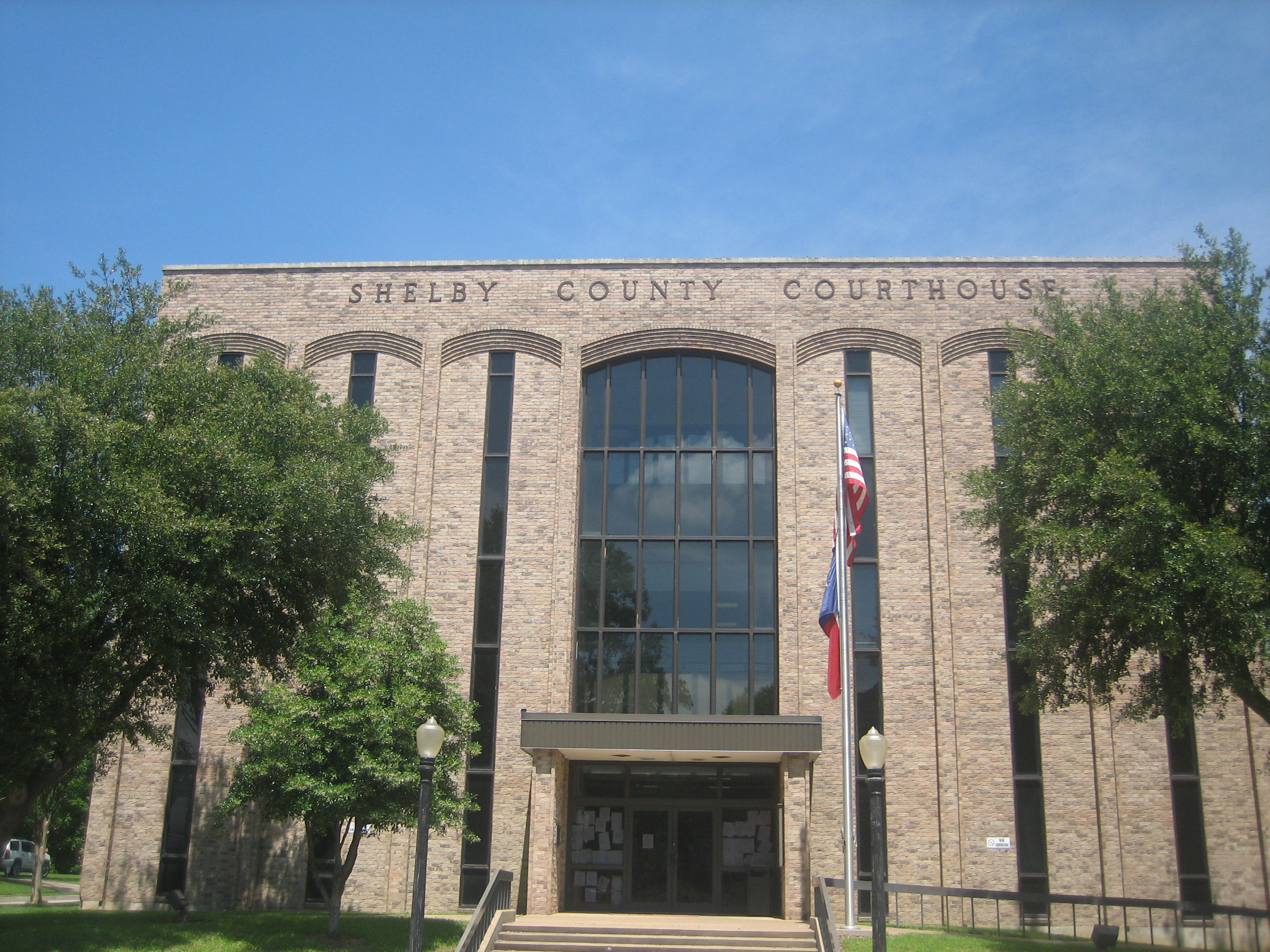 The current Shelby County Courthouse in Center, Texas, United States.